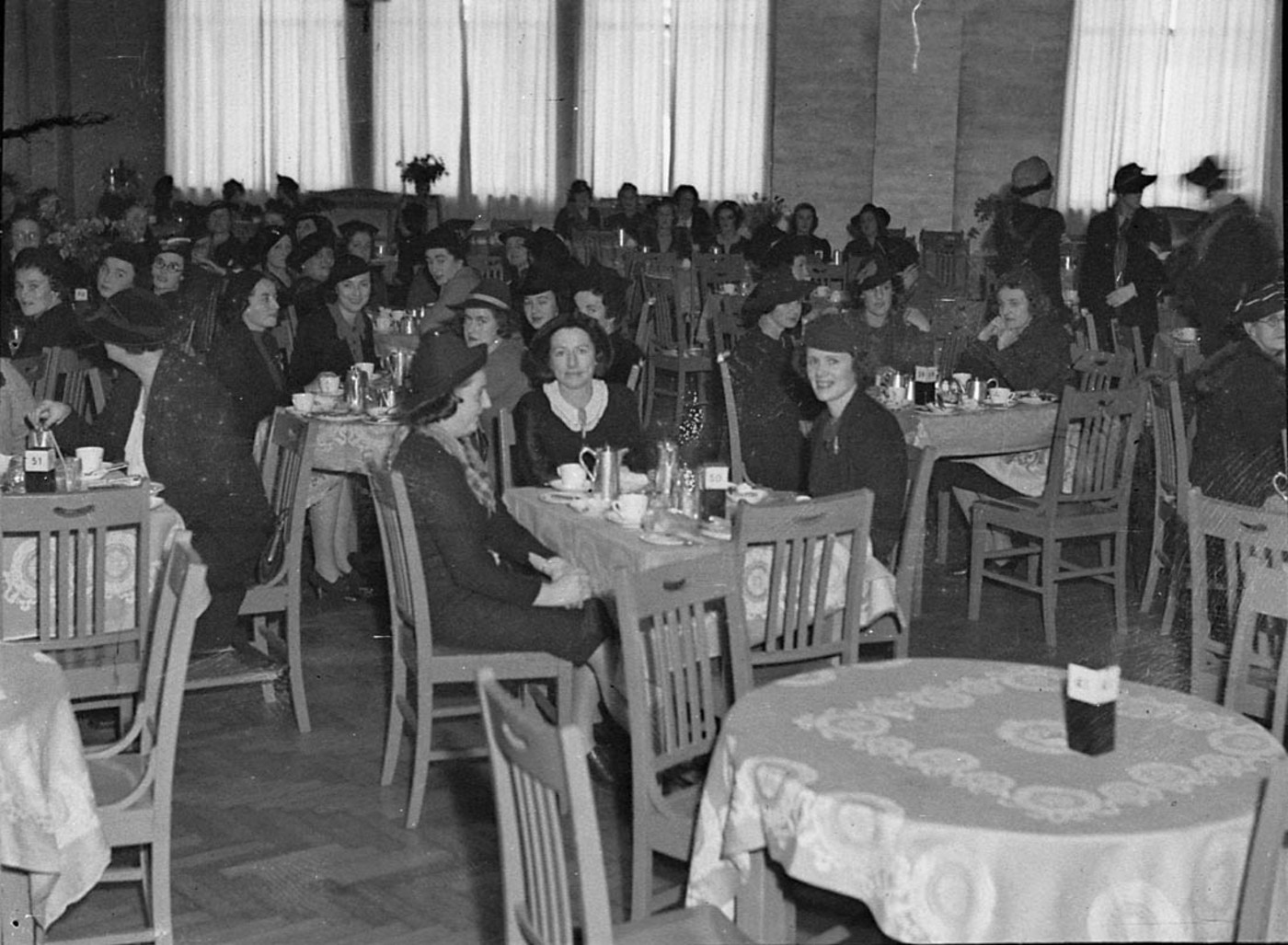 2CH business girls' lunch